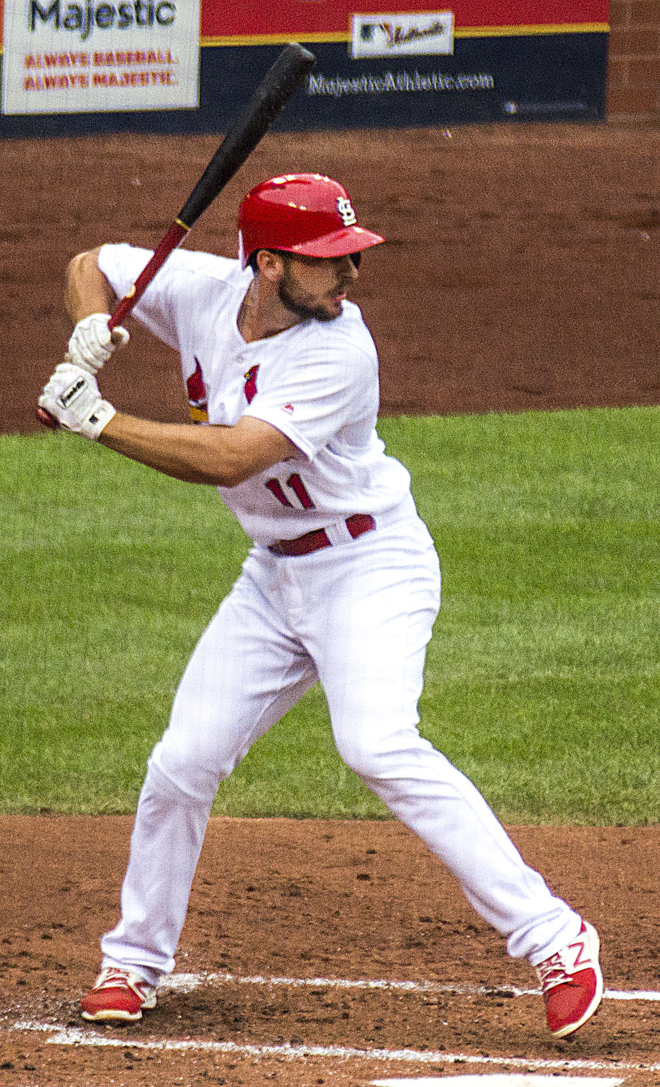 Cardinal player Paul DeJong 2017